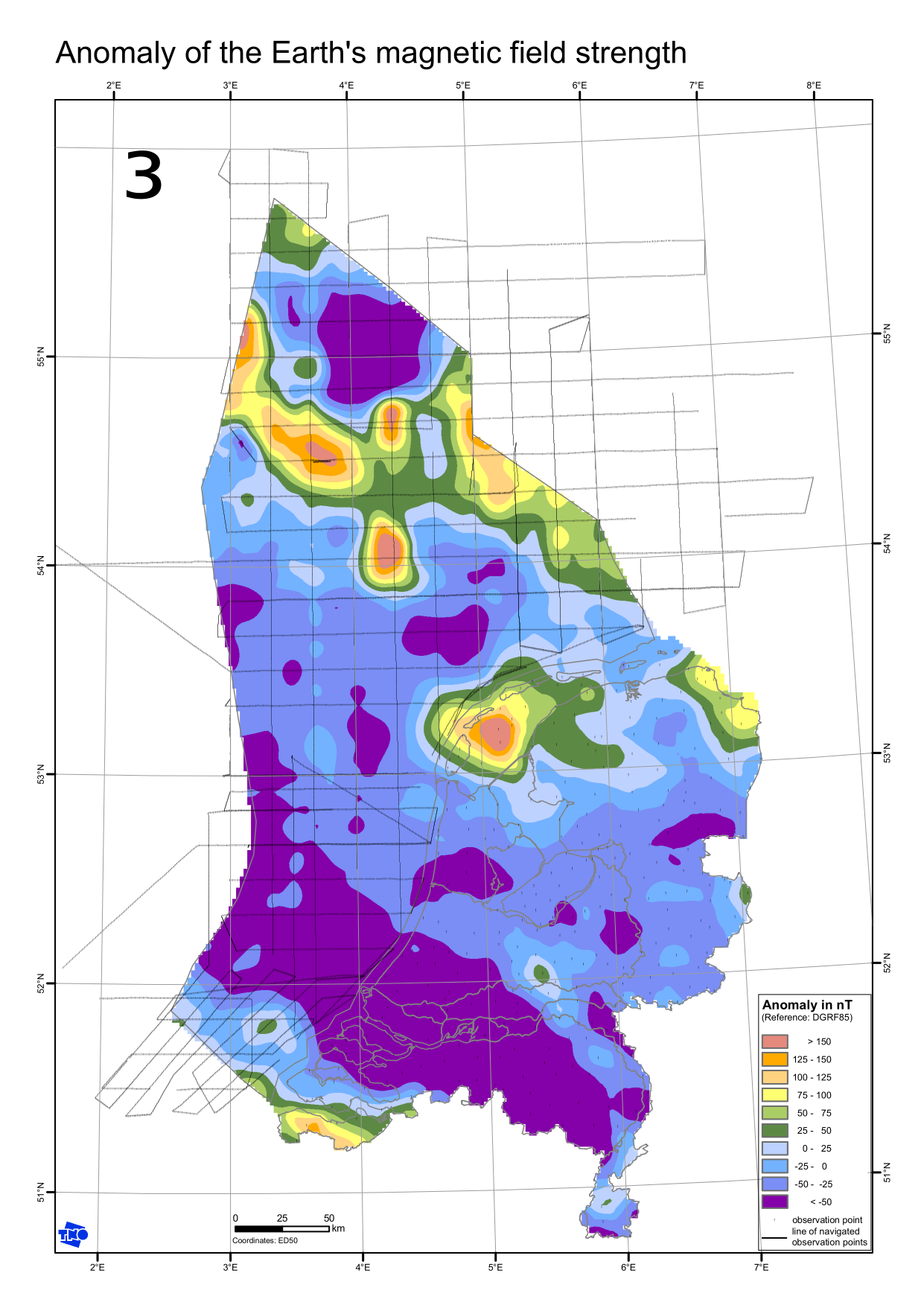 Description on NLOG: "Earth’s magnetic field: The anomaly of the vertical component of the earth’s magnetic field is an indication of the concentration of ferromagnetic minerals (predominantly magnetite) in the earth’s crust. The anomalies are larger as the concentrations of these minerals are higher. The highest concentrations are found in igneous and metamorphic rocks. The concentrations are usually low in sedimentary rocks."